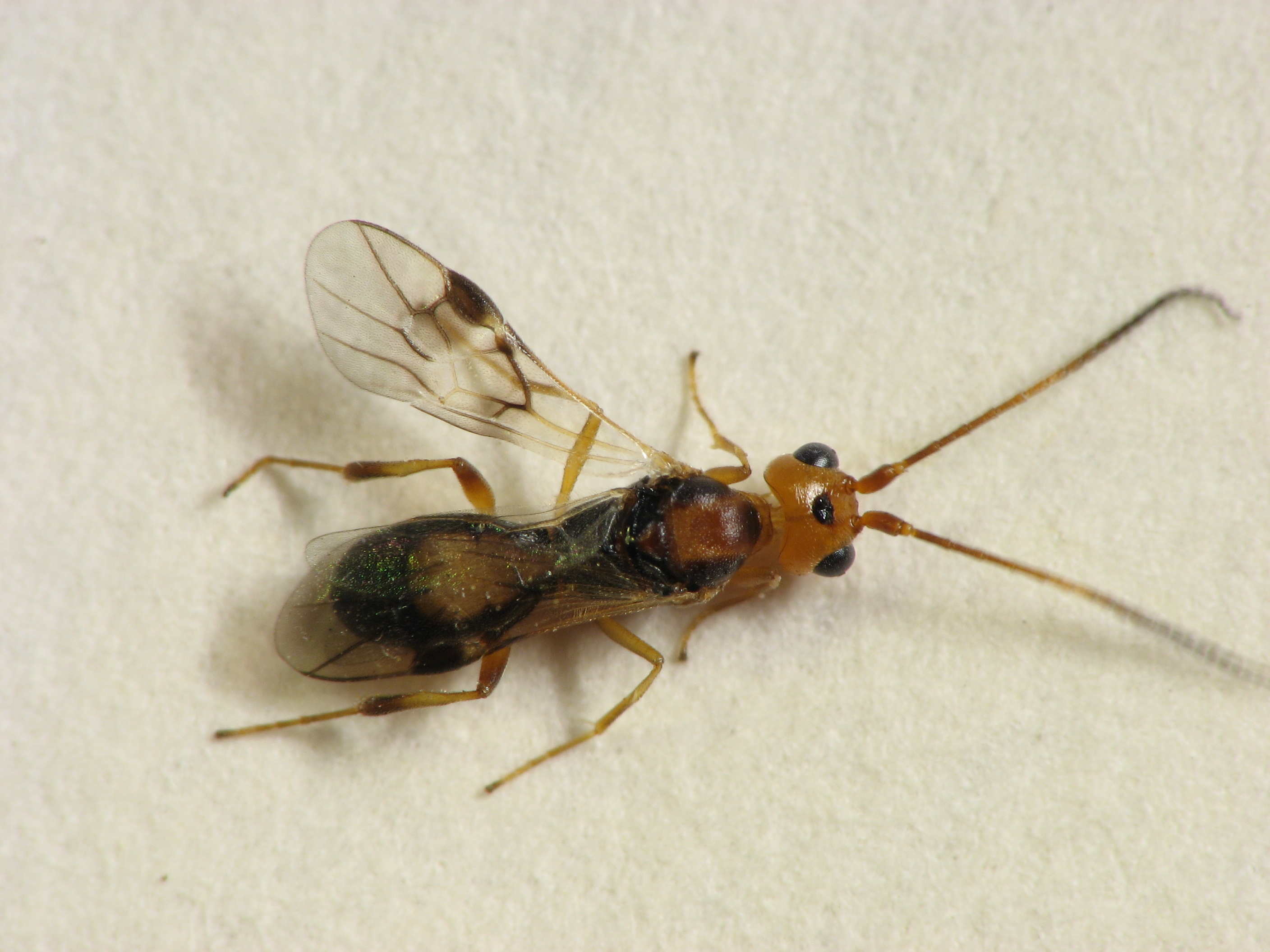 Braconid wasp, Phanerotoma sp. Size: 4.5 mm. Willow Grove, Montgomery County, Pennsylvania, USA.